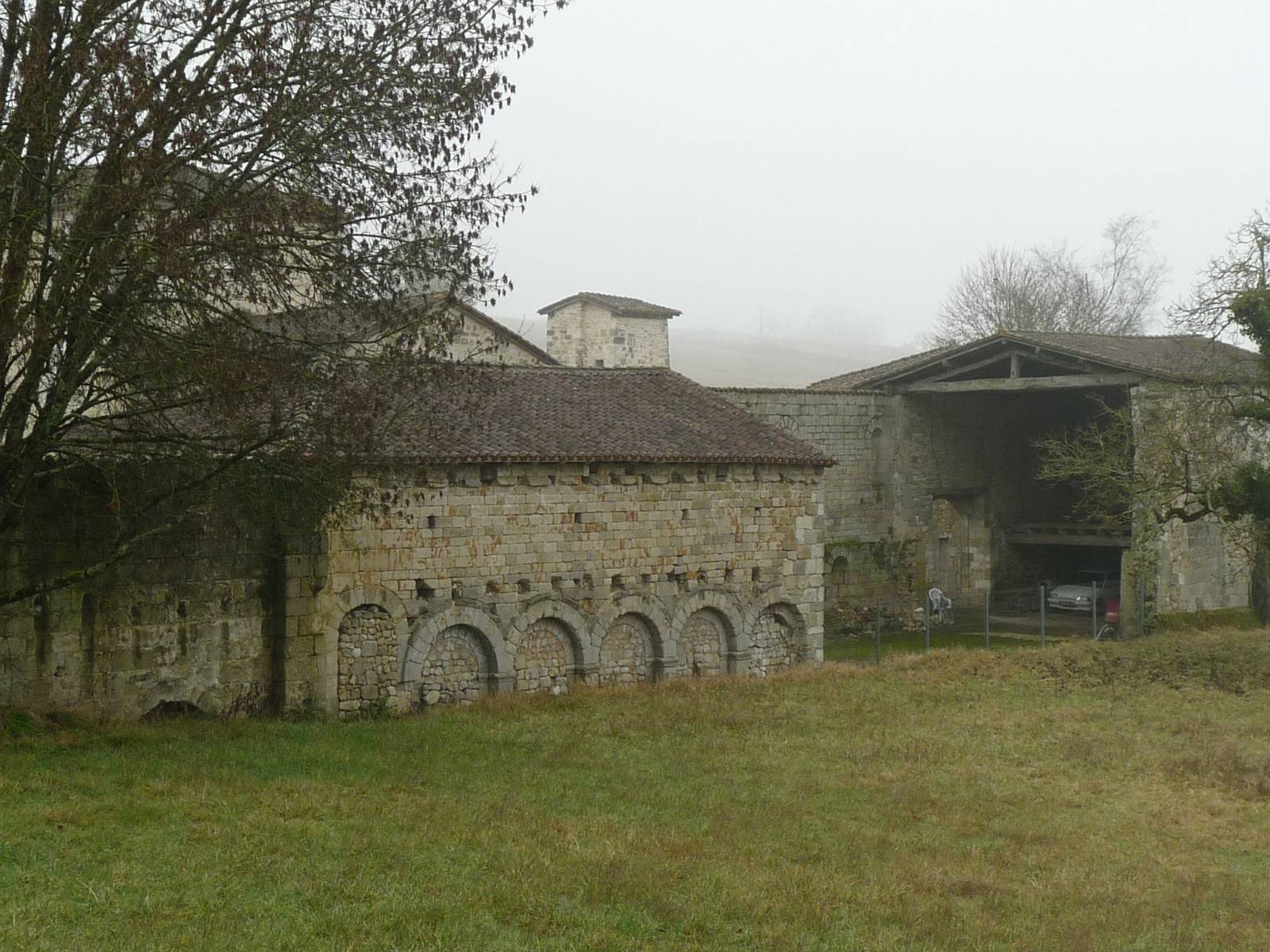 remains of abbey of Bournet, Courgeac, Charente, SW France